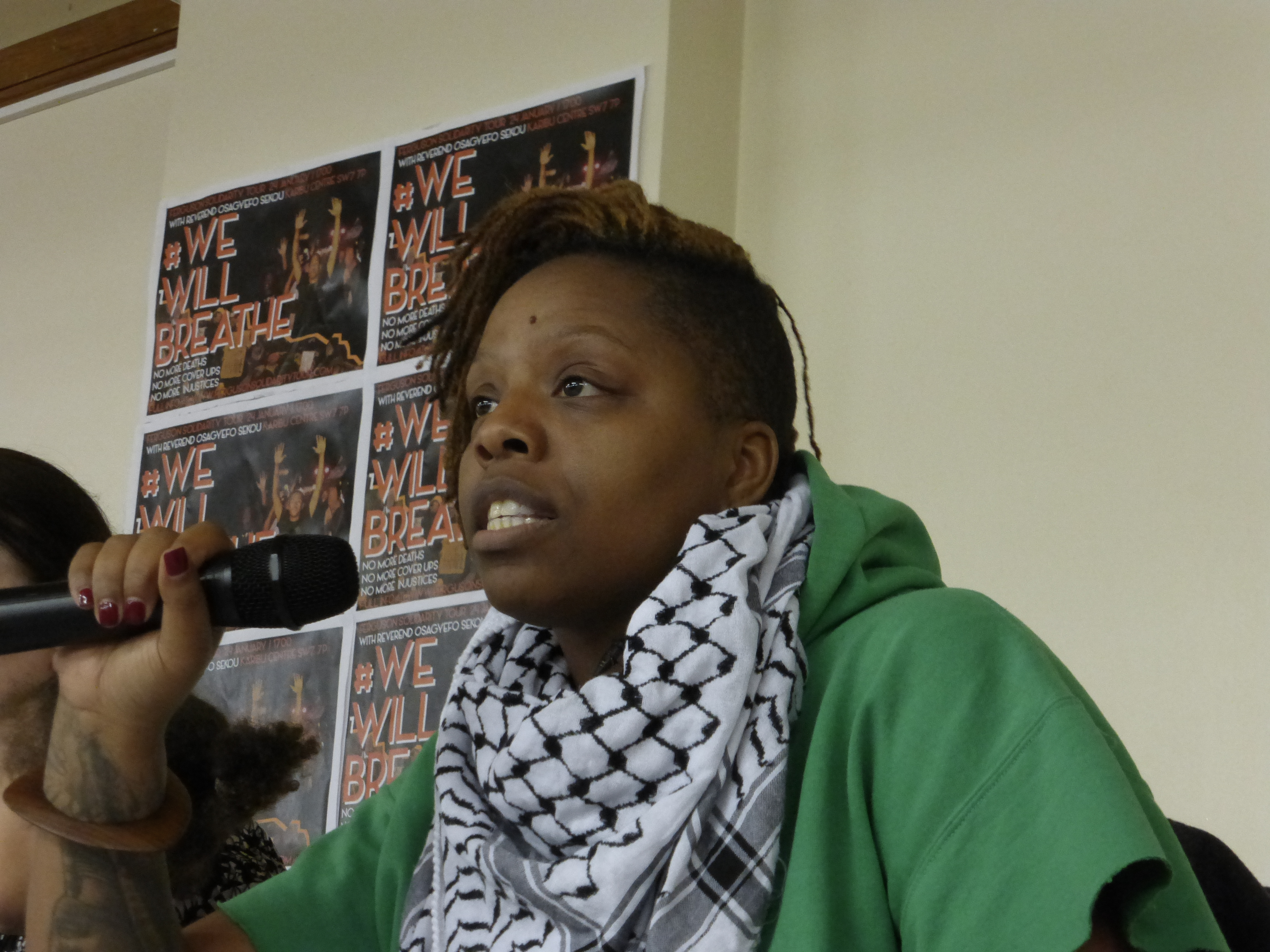 Patrisse Cullors speaking in Tottenham, north London as part of the Furguson Solidarity Tour. 25th January 2015.